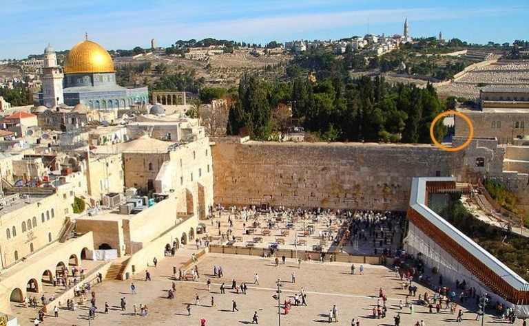 The Buraq Wall viewed from the Western Plaza, circled in orange